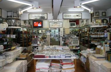 Man Luen Choon Front